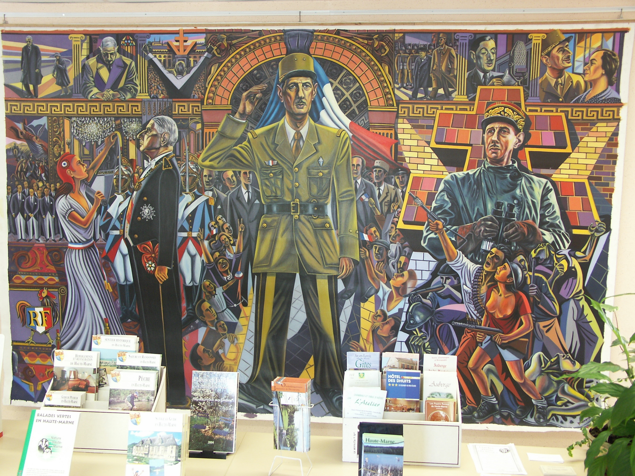 Wall picture in the tourist office in Colombey-les-Deux-Églises, featuring scenes from the life of Charles de Gaulle